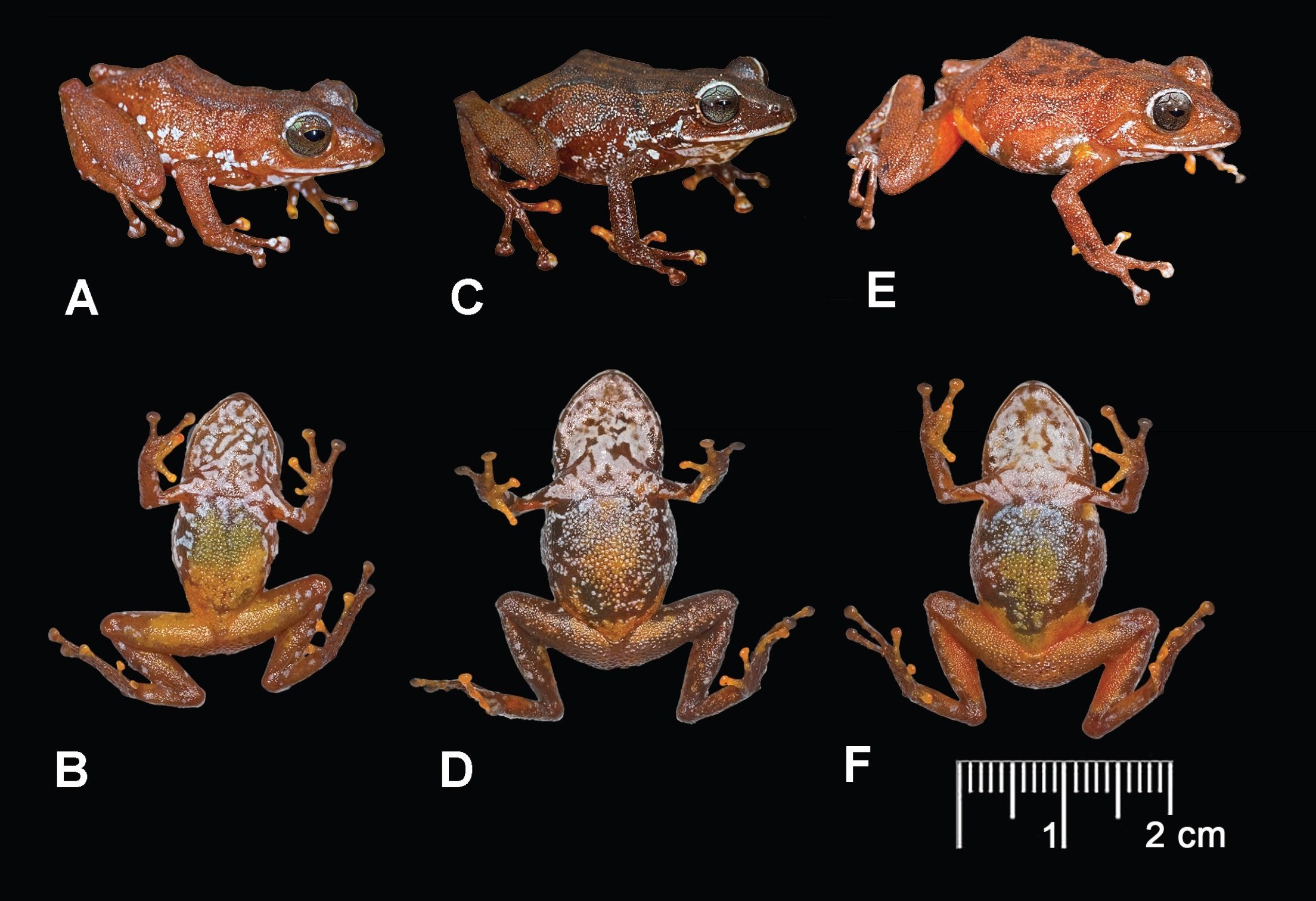 Pristimantis jamescameroni. Intraspecific variation in dorsal and ventral colour pattern in living specimens. A. Dorsolateral view of the male holotype. B. Ventral view of the same specimen. C. Dorsolateral view of a female paratype. D. Ventral view of the same specimen. E. Dorsolateral view of a different female paratype. F. Ventral view of the same specimen.